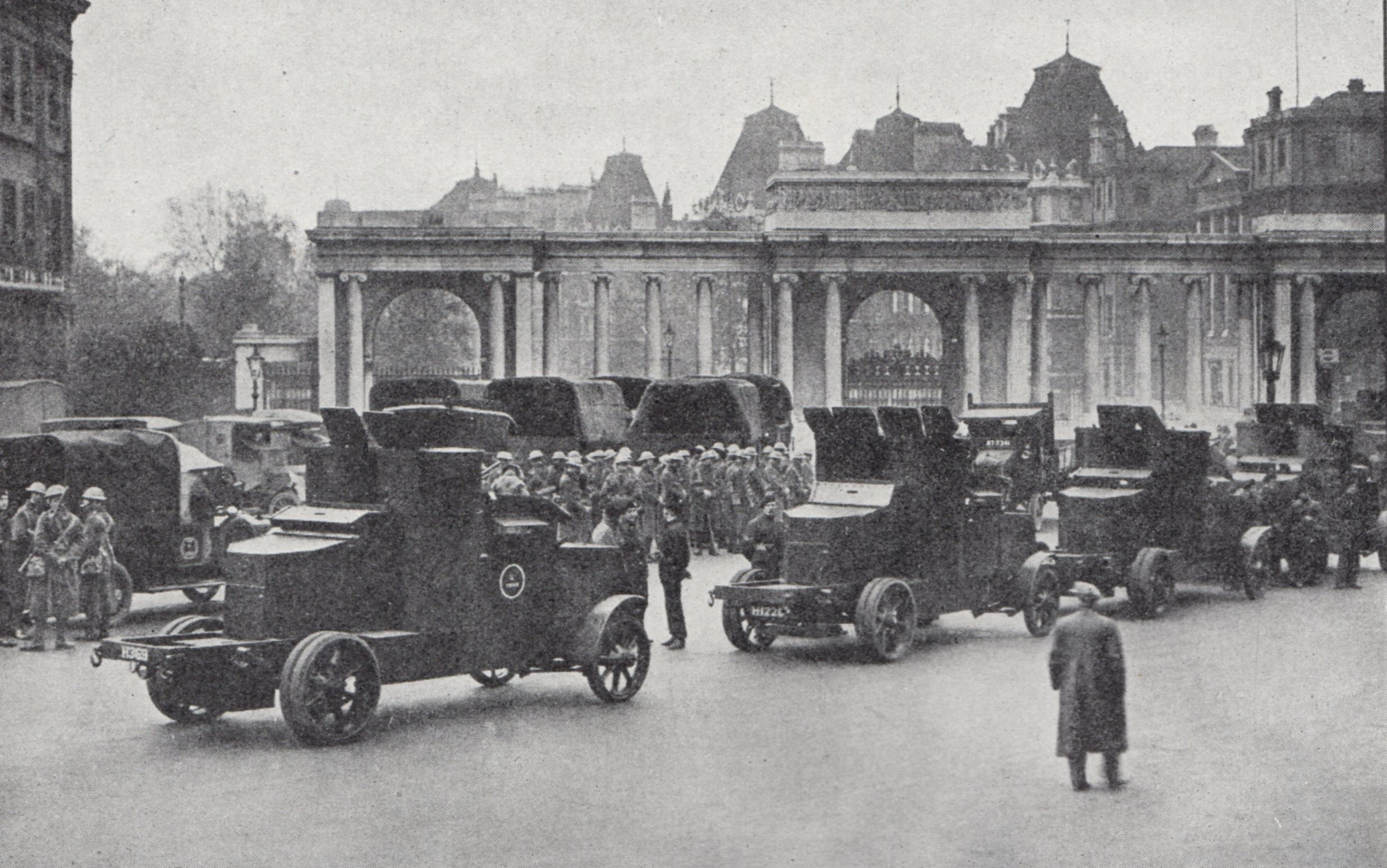 Troops mustered at Hyde Park, London. Ready to patrol the streets of the city during the Genral Strike of 1926.